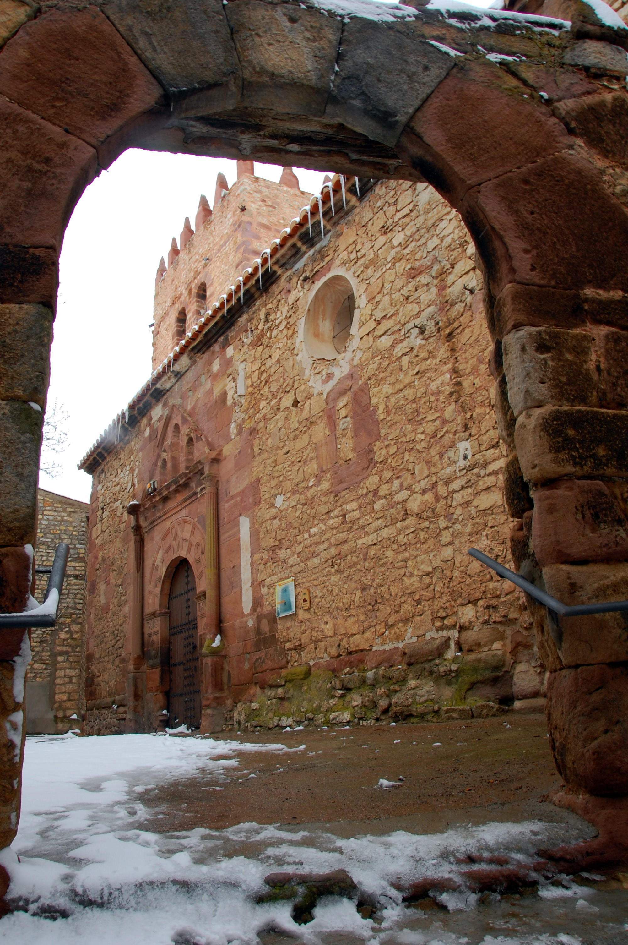 Façade of Pozondon's church